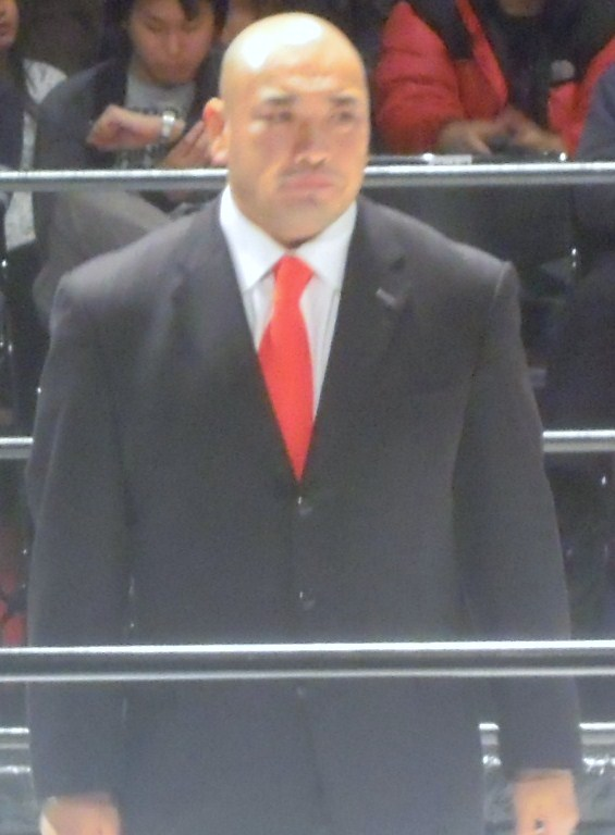 Japanese professional wrestler,Jinsei Shinzaki Sendai Girls Dec 5 2010 Zepp Sendai.